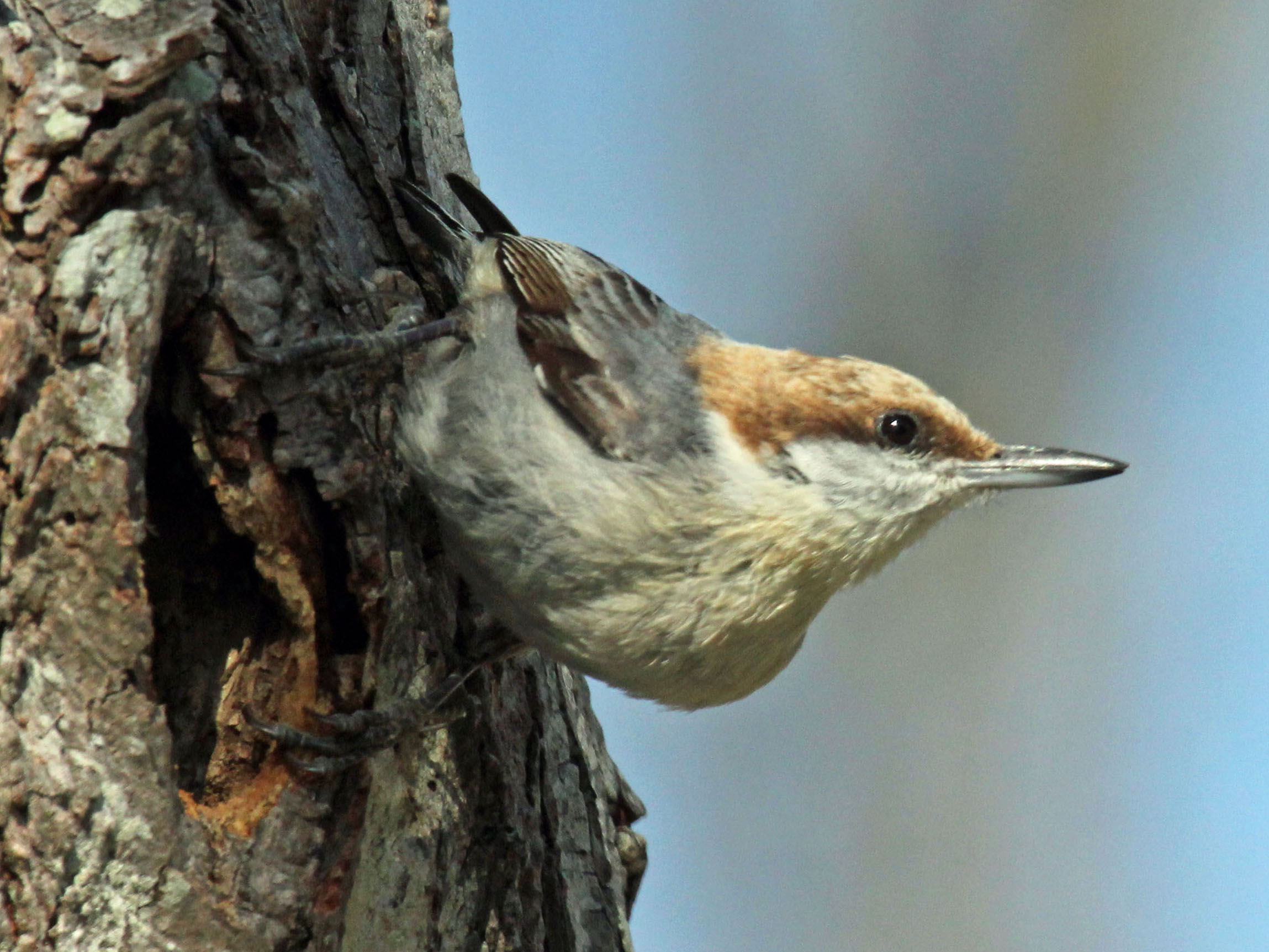 Brown-headed Nuthatch (Sitta pusilla) - Ash, North Carolina